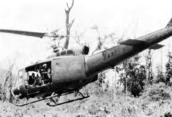 A Bell UH-1D Huey of No. 9 Squadron RAAF, used to support the 2nd Battalion, Royal Australian Regiment in Vietnam, 1970.